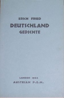 Book cover of Erich Fried "Deutschland" 1944